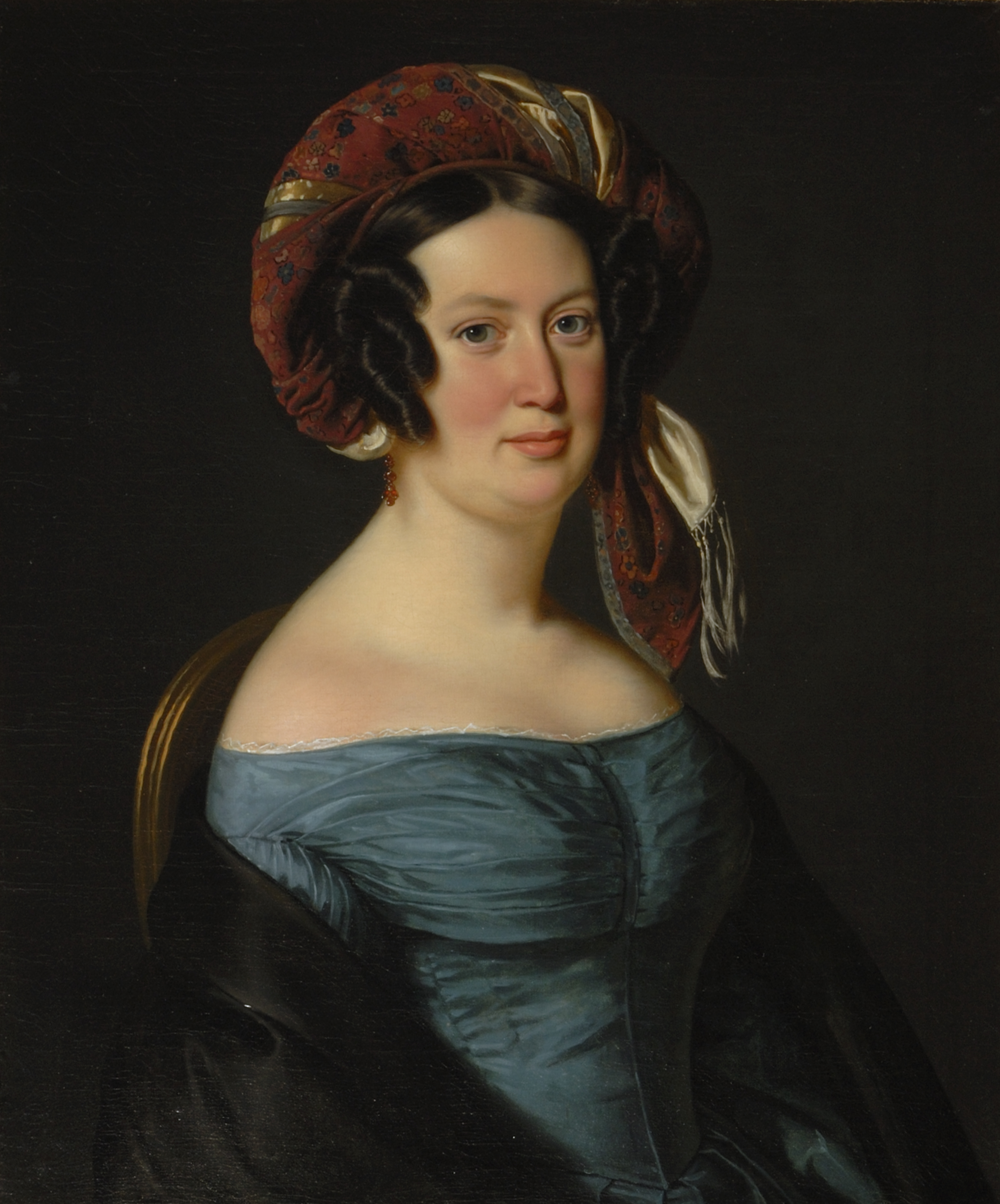 Bertha Duntzfelt, née Christmas (1797-1872). Trapholt Museum. On permanent loan to Museet på Koldinghus.